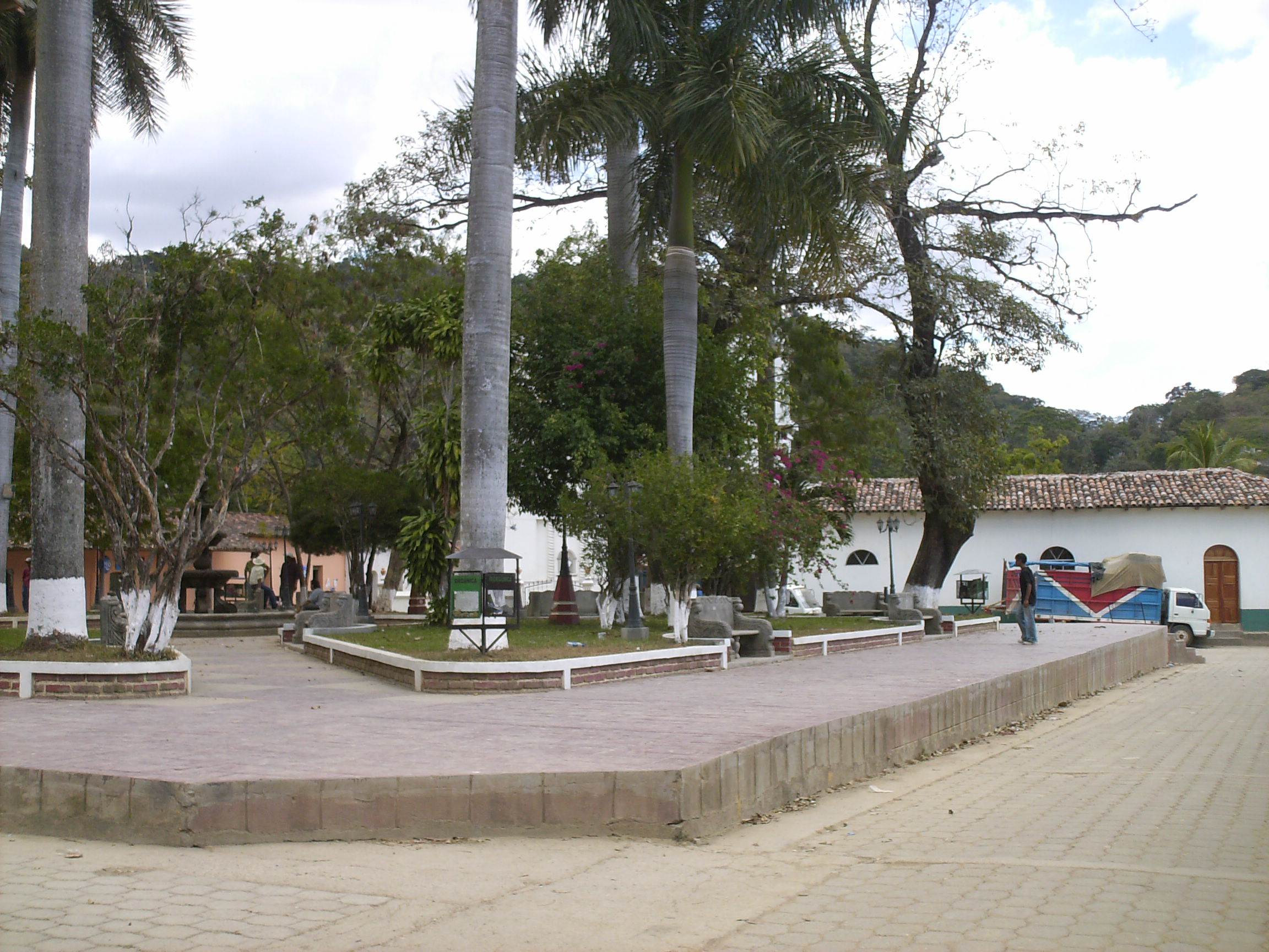 Candelaria, municipality in the Honduran department of Lempira.